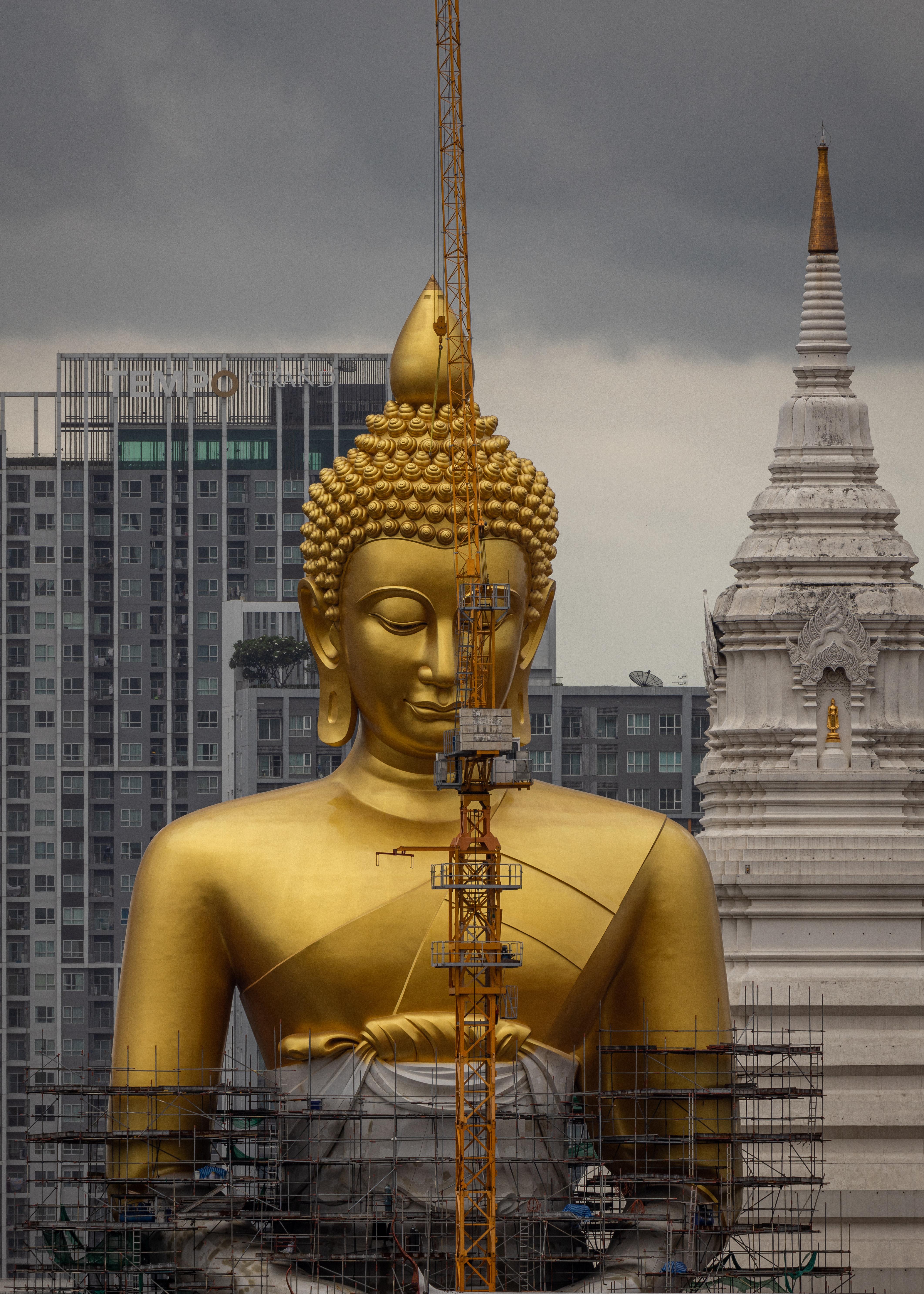 Wat Paknam Bhasicharoen is a royal wat ('temple') located in Phasi Charoen district, Bangkok, at the Chao Phraya River.